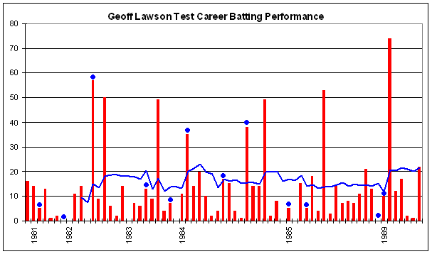 Test batting chart of Geoff Lawson. Red columns are the runs in the innings. Blue dots indicate not outs. Blue line is average in the last ten innings. Thanks to Raven4x4x for providing the template.